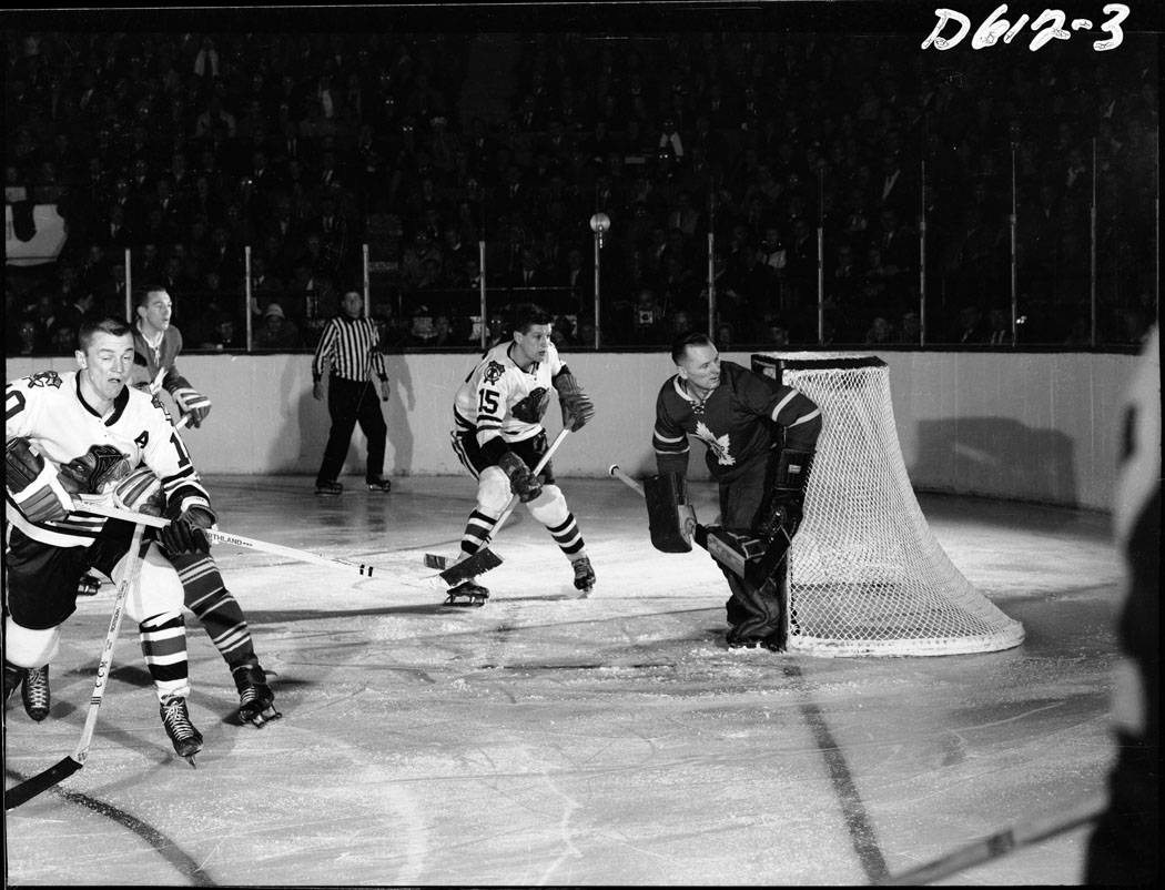 Hockey game, Toronto Maple Leafs vs. Chicago Black Hawks, Maple Leaf Gardens, Toronto, Ontario, Canada. The Leafs goalie is Johnny Bower, who began playing with the Leafs in 1958. The two Black Hawks are Ron Murphy (#10) and Eric Nesterenko (#15). Bob Nevin is seen partially obscured behind Murphy. Taking into account of the players visible on the ice, and the styles of the uniforms being worn by the players, the image can be dated sometime between the 1960–61 season to the 1961–62 season. 1959–60 was the first year the secondary Chicago logo was placed on the shoulders – above, rather than below, as well as the player's number of the sleeve. However, Bob Nevin did not play for Toronto in the 1959–60 season, rejoining the team one year later, during the 1960–61 season. 1961–62 was the last year where the Maple Leafs uniforms did not feature the player's number on the sleeves of their jerseys.